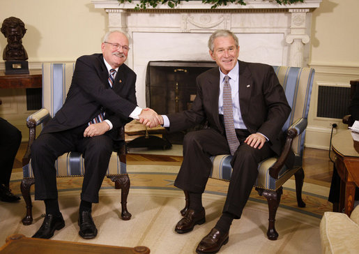 President George W. Bush meets with Slovak Republic President Ivan Gasparovic in the Oval Office Thursday, Oct. 9, 2008, at the White House.